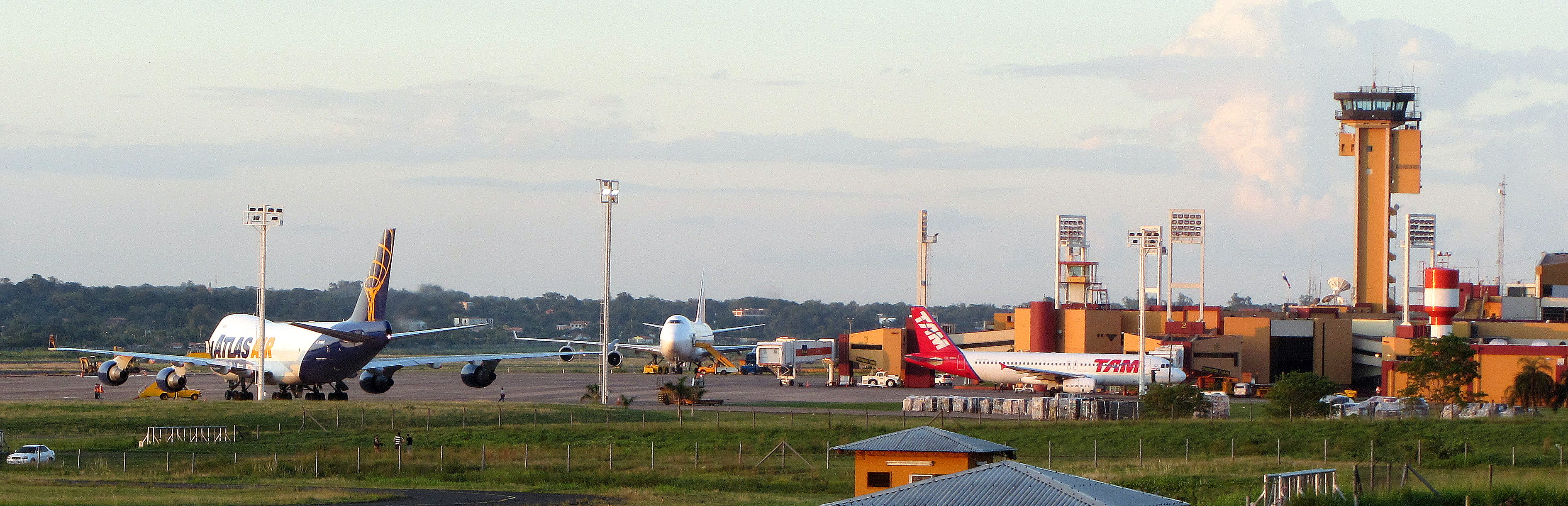 View of the International Airport of Asunción Paraguay